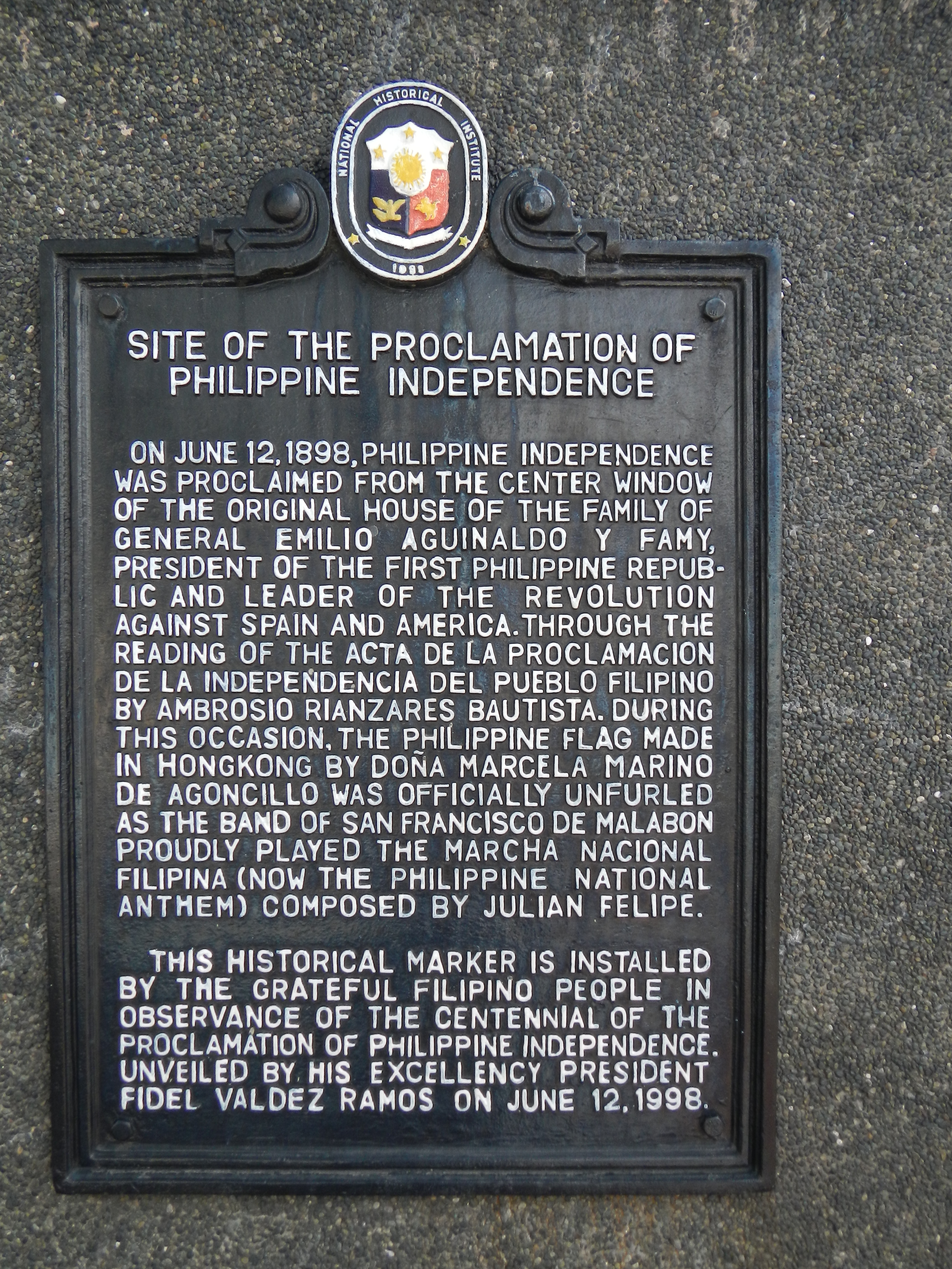 English historical marker installed in 1998 by the National Historical Institute (now the National Historical Commission of the Philippines) for the Aguinaldo Shrine, site of the proclamation of Philippine independence from Spain.